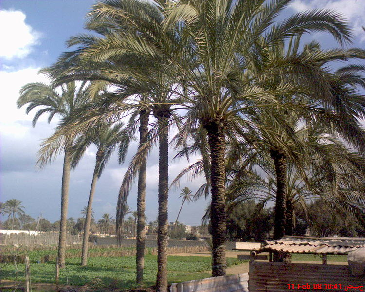 El Latama, Benghazi.